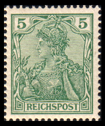 Germania postage stamp of German empire, 5 pfennigs, 1900